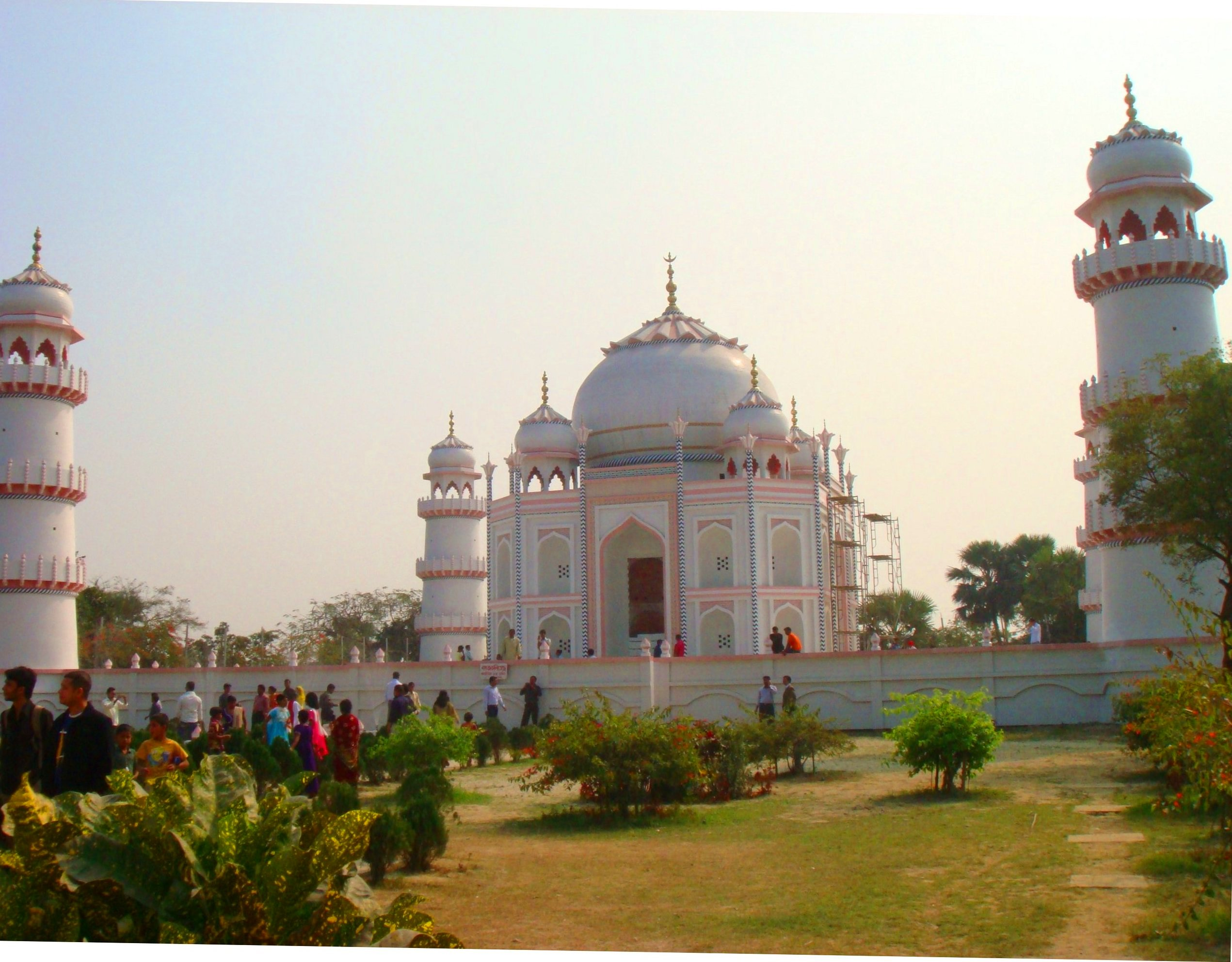 Replica of Taj Mahal at Sonargaon, Bangladesh